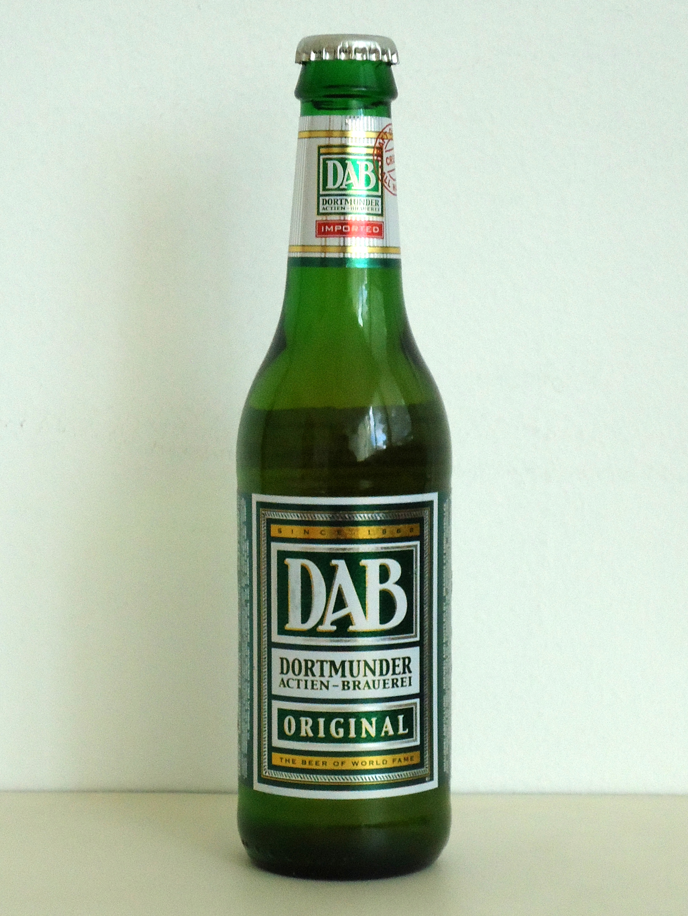 DAB Dortmunder Original beer